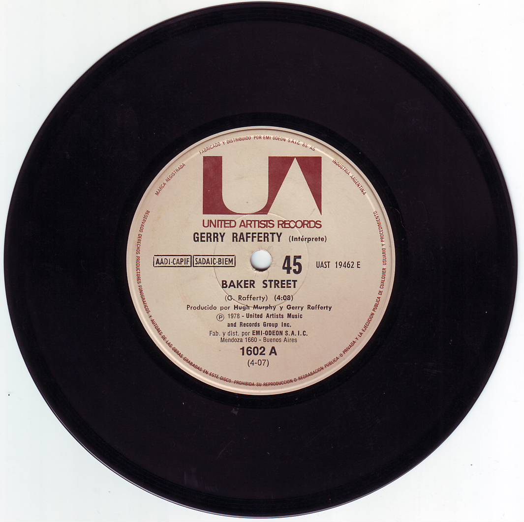 Simple vinyl disc of 45 RPM with normal hole